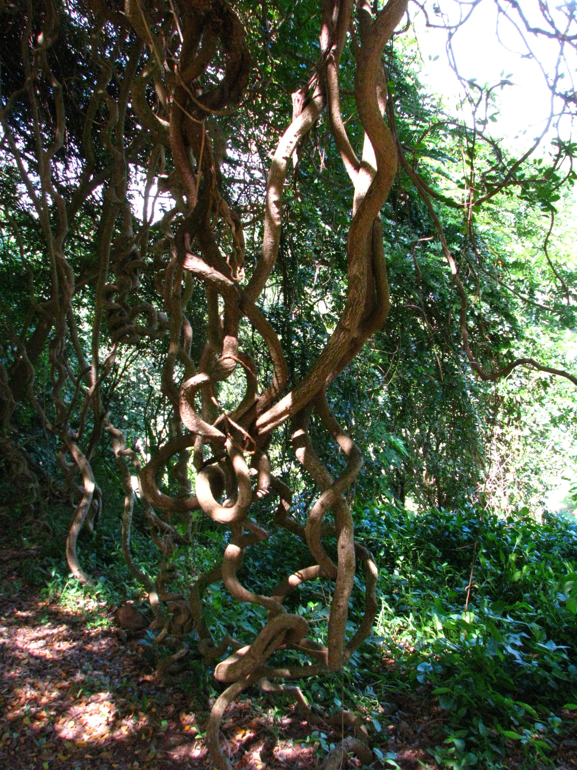 St. Thomas bean Fabaceae Possibly indigenous to the Hawaiian Islands (known only from one location on Kauaʻi) Kauaʻi (Cultivated) Twisted woody lianas. The tough stems are used for coarse cables and jump ropes. The lianas provide a potable, watery sap that is drunk in times of need. In Tonga, it is used for medicinal purposes.